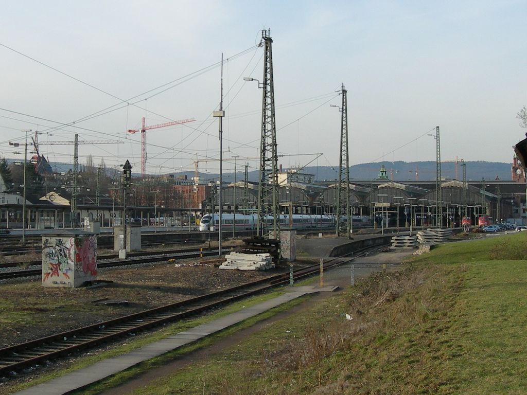 rail tracks of Wiesbaden Hauptbahnhof